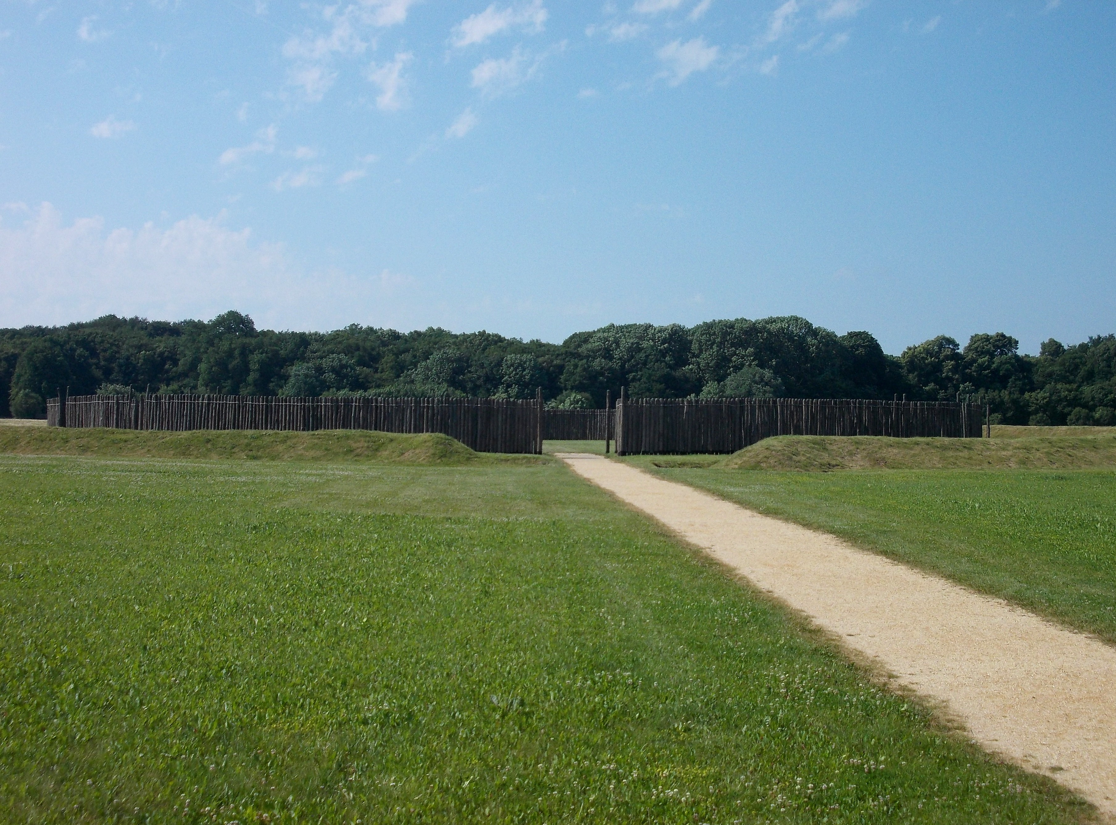 Reconstruction of the neolithic sun observatory in Goseck (district: Burgenlandkreis, Saxony-Anhalt)